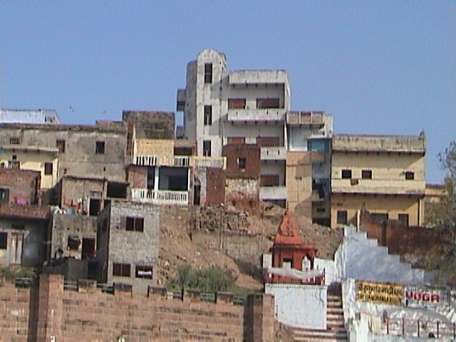 Hindu culture, have attributed supreme importance to the preservation of tradition Classical civilizations, and especially the Indian one, have attributed supreme importance to the preservation of tradition. Its central idea was that social institutions, scientific knowledge and technological applications need to use "heritage" as a "resource". Using contemporary language, we would say that ancient Indians considered, as social resources, both economic assets (like natural resources and their exploitation structure) and factors promoting social integration (like institutions for preserving knowledge and maintaining civil order). Ethics considered that what had been inherited should not be consumed, but should be handed over, possibly enriched, to successive generations. This was a moral imperative for all, except in the final life stage of sannyasa